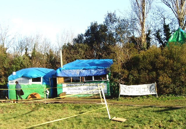 Camp Bling, Priory Crescent, Southend-on-Sea. In 2003 a Saxon burial chamber containing a number of treasures was discovered on this site which lies between Priory Crescent and the railway. Camp Bling was established in 2005 as a protest against a road-widening scheme which will in due course cover the site together with a section of nearby Priory Park.